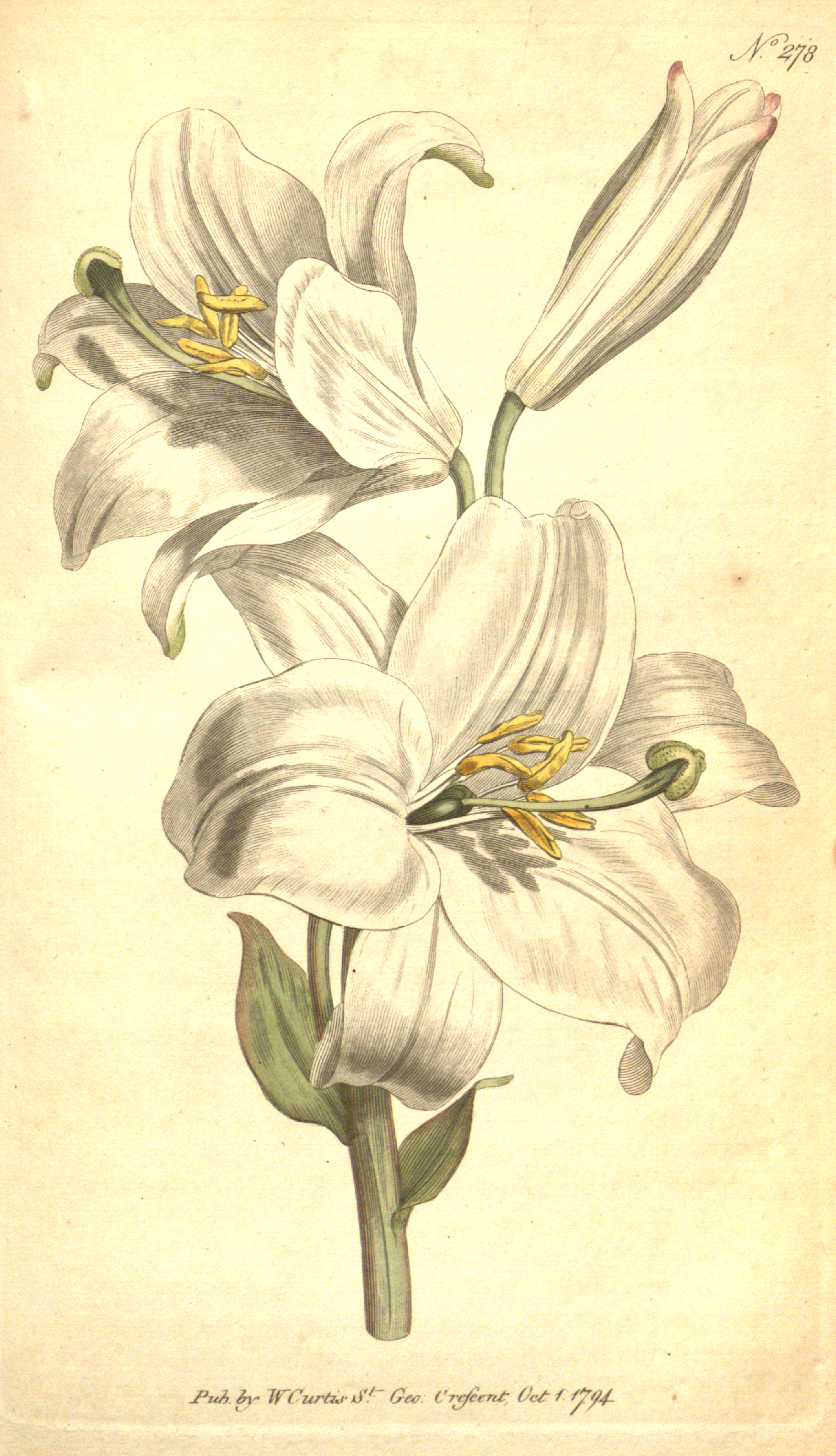 This is a plate from The Botanical Magazine, Volume 8.